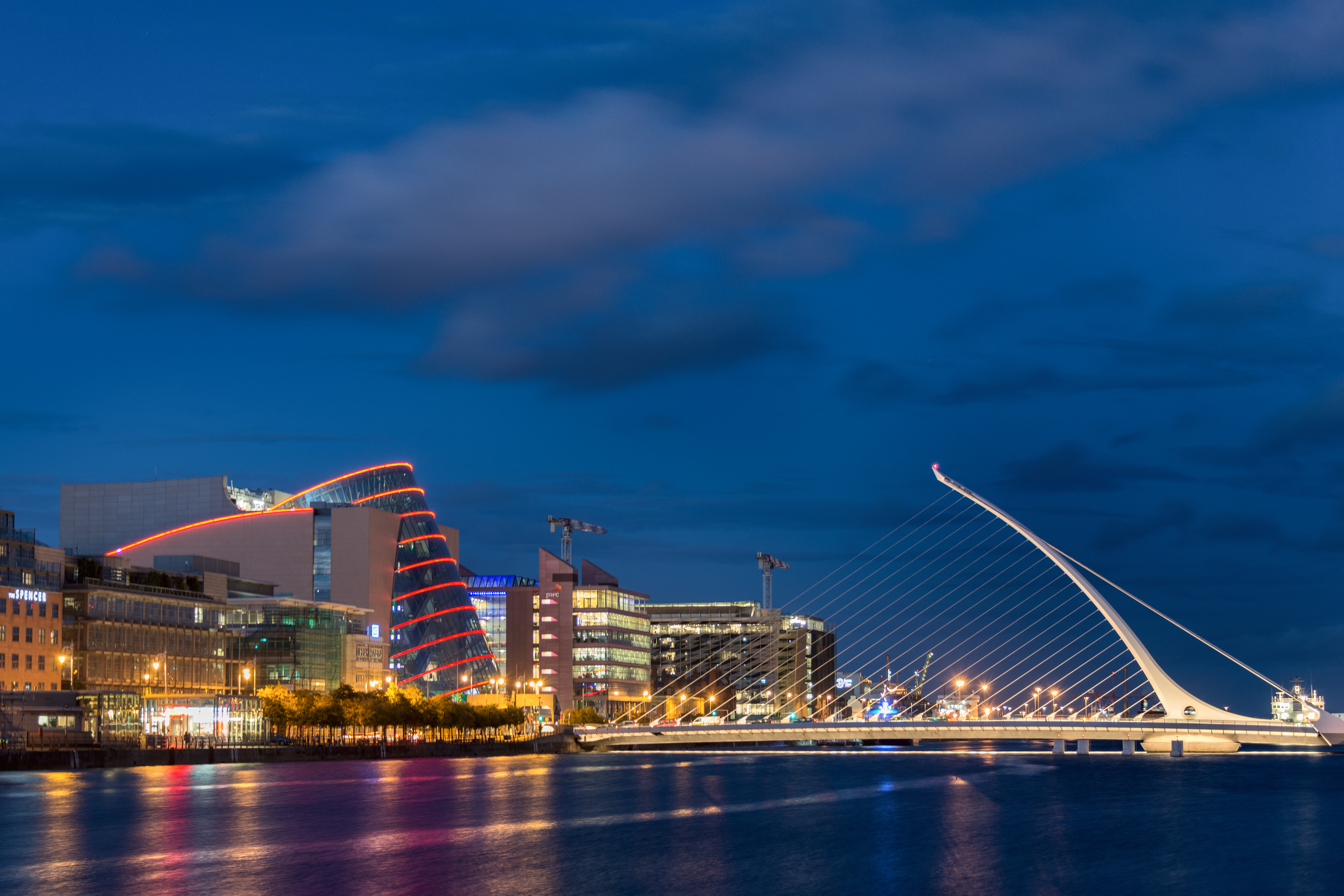 Samuel Beckett Bridge by Santiago Calatrava - Dublin, Ireland